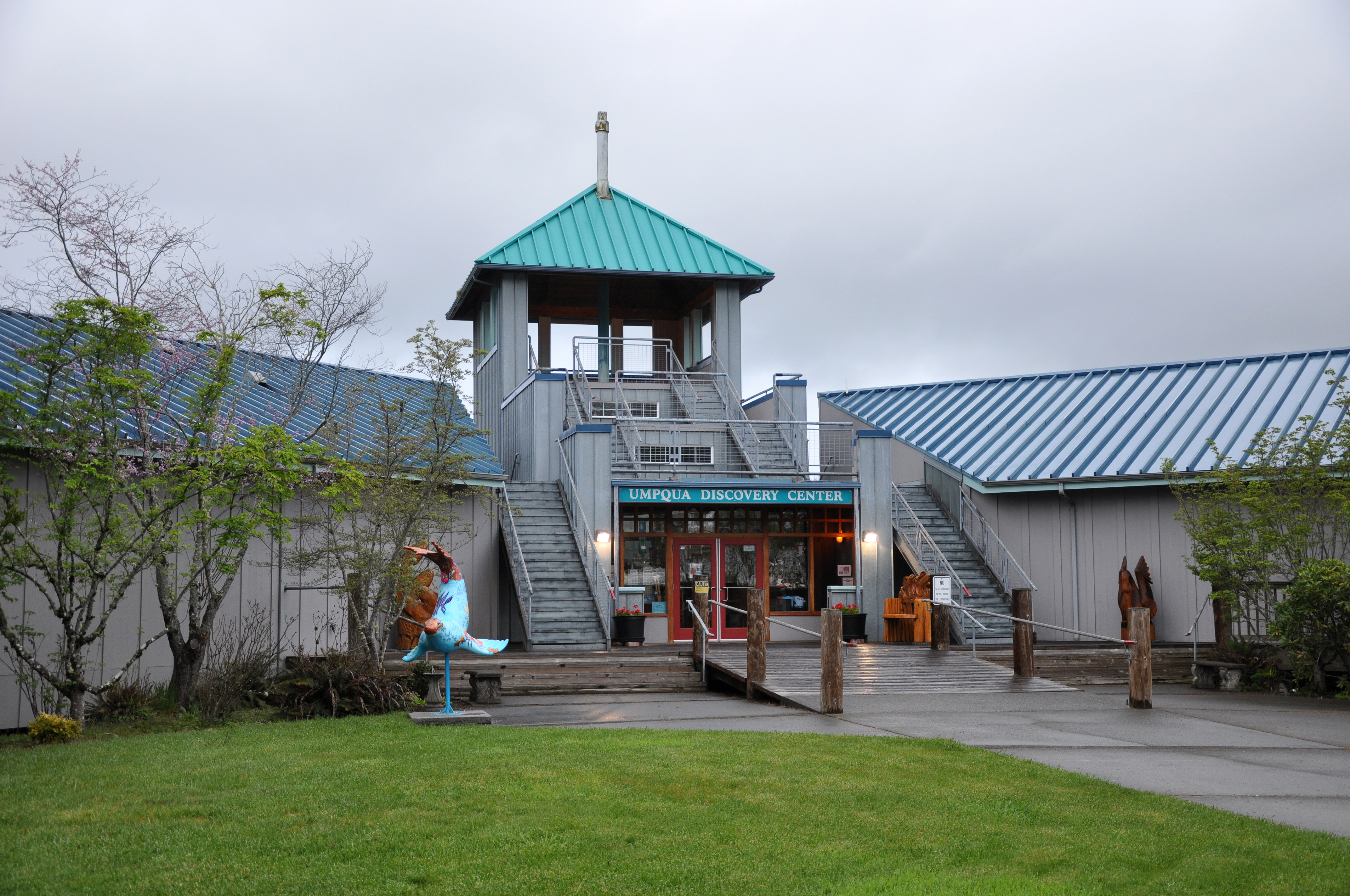 Umpqua Discovery Center in Reedsport in the U.S. state of Oregon. The center, featuring natural and cultural history exhibits of the region, is along the Umpqua River near its mouth on the Pacific Ocean.